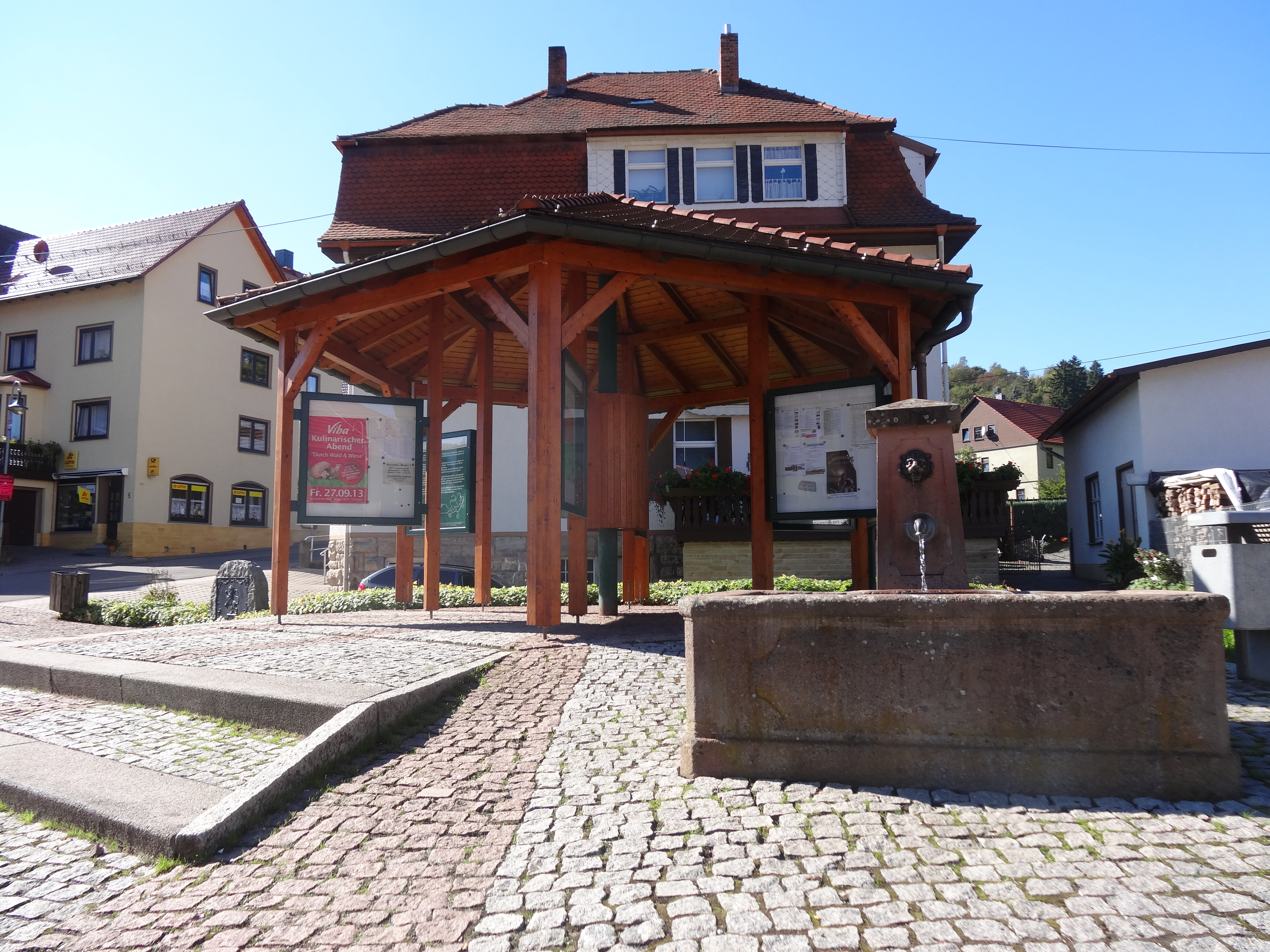 Central place of Kleinschmalkalden, Thuringia, Germany with fountain